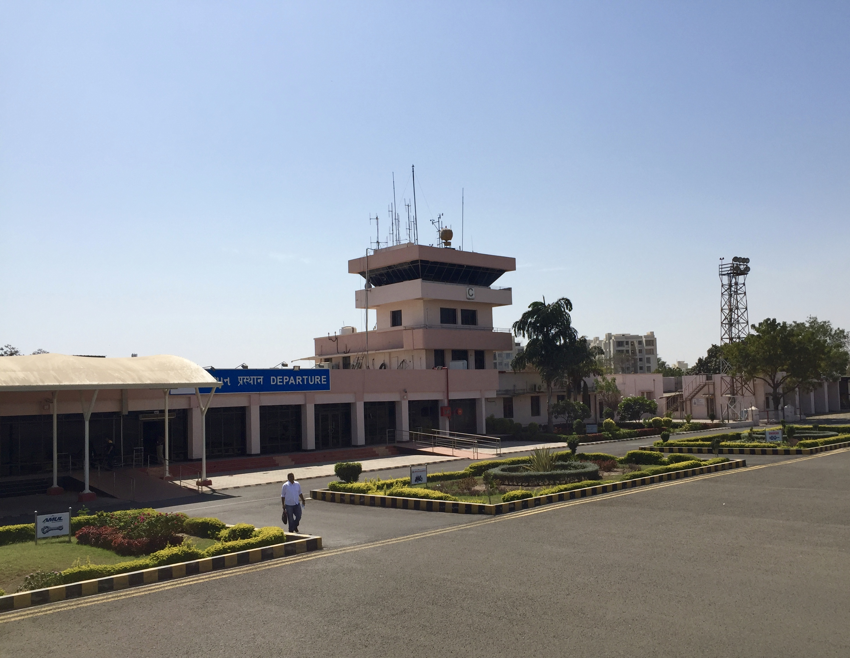 Airside view of Terminal Building and ATC tower at Rajkot Airport in Saurashtra, Gujarat, India